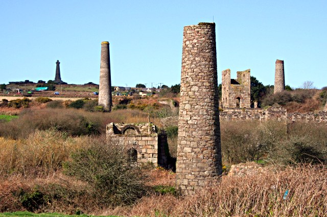 West Basset Stamps This is the remains of the buildings which housed machinery to crush, grade and concentrate the ore to make it ready for sale. On the horizon at the top of Carn Brea Hill is the De Dunstanville Memorial, a memorial to one of the Bassett family. The Bassetts were big landowners hereabouts in the 19th century. Landowners were just about the only people who were guaranteed to get rich from mining as they took a percentage of everything sold without having to invest a penny in any mines on their land.